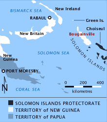 Simple outline map of Bougainville showing its position relative to New Guinea, New Britain, New Ireland, and the rest of the Solomon Islands. Choiseul and Green Islands are indicated, also Bismarck Sea, Coral Sea and Solomon Sea